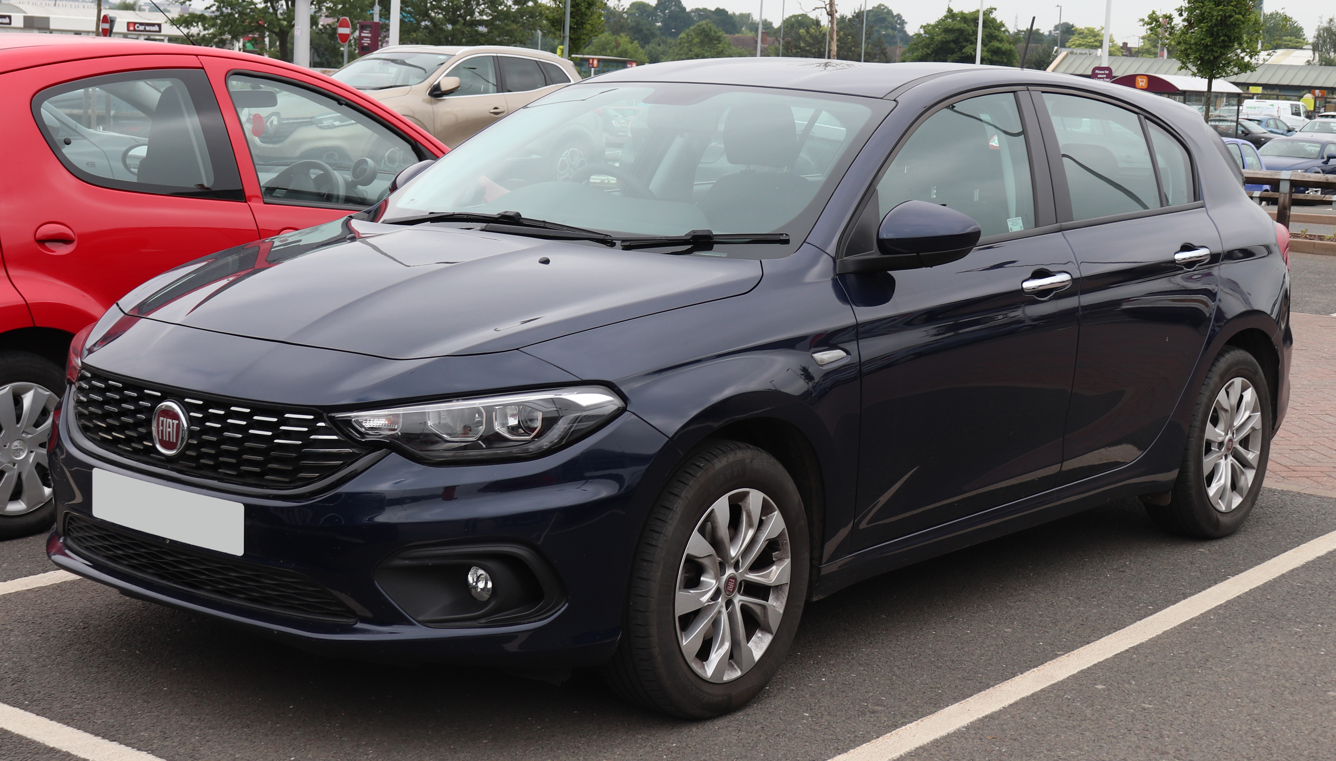 2016 Fiat Tipo Easy+ T-Jet 1.4 Front Taken in Leamington Spa